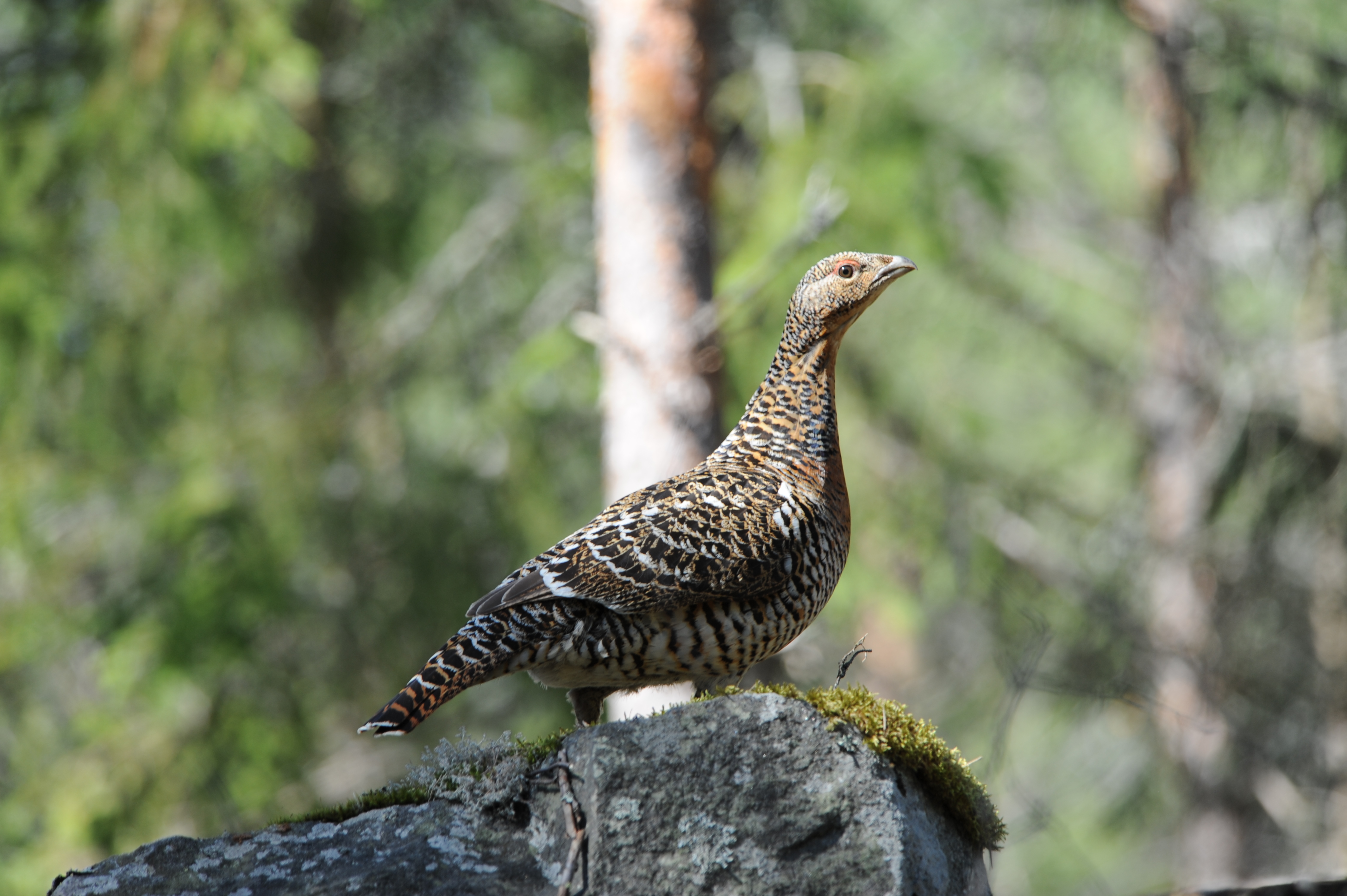 Female capercaillie, Tetrao urogallus